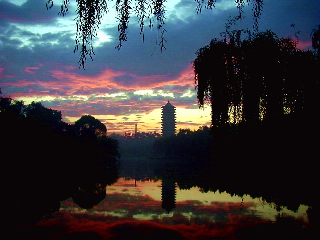 Pagoda, Peking University Pagoda mirrored in the Lake With No Name